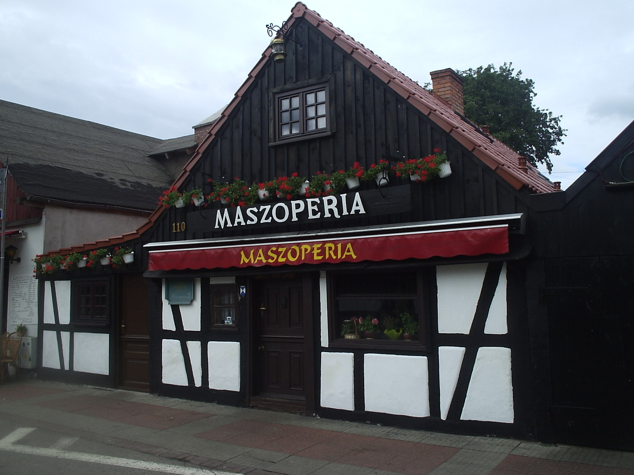 Restaurant Maszoperia in Hel, Poland